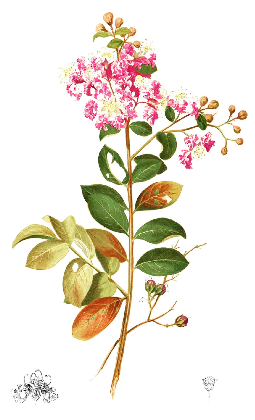 Lagerstroemia indica Plate from book